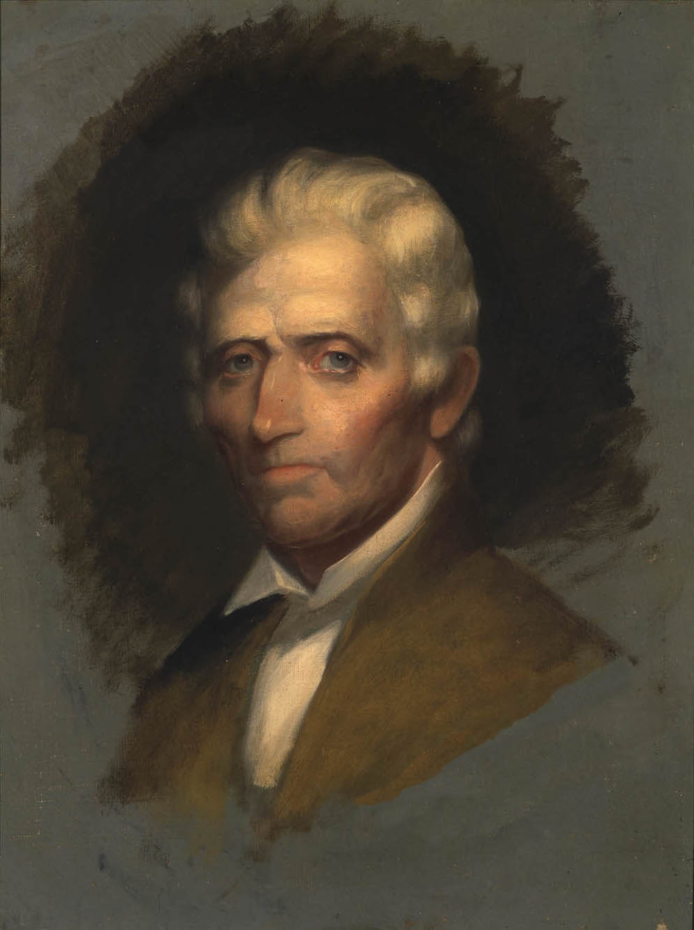 Oil sketch of Daniel Boone by Chester Harding, the only portrait of Boone painted from life. This was painted when Boone was 84 years old, a few months before his death. Harding painted Boone in June 1820 while Boone was living with his daughter Jemima Boone Callaway in Missouri. According to historian Ted Franklin Belue, "from this original oil portrait Harding made three copies: two busts and a full-length." (The Life of Daniel Boone by Lyman Draper, edited by Ted Franklin Belue. Mechanicsburg, PA: Stackpole Books, 1998, p. 2.)